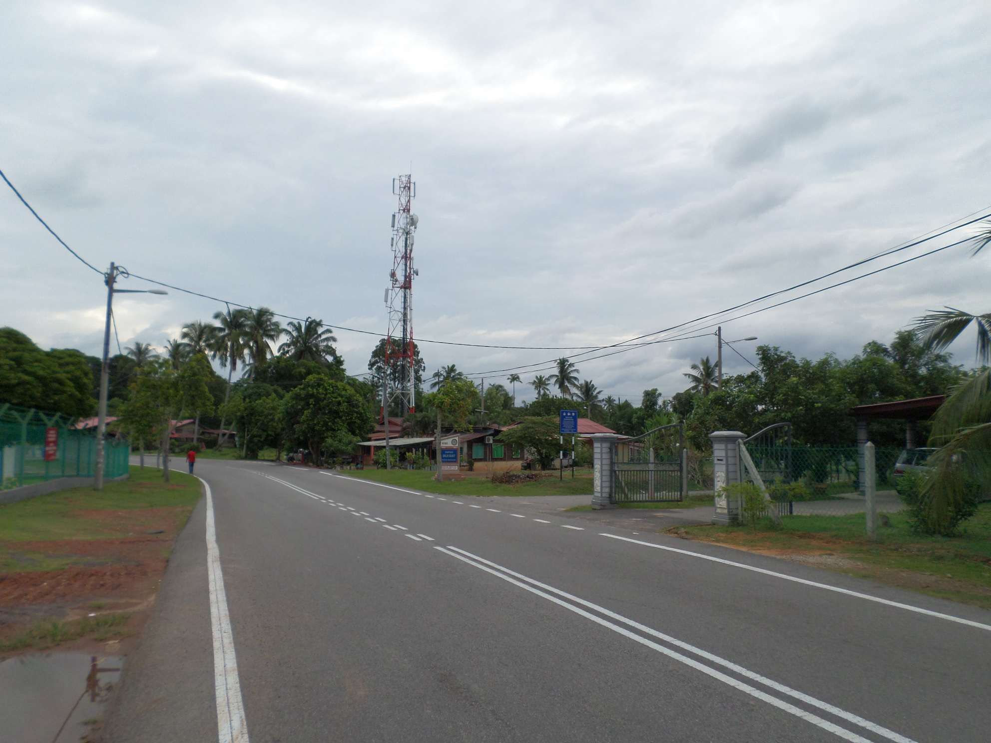 Tanjung Kling, Malacca, Malaysia